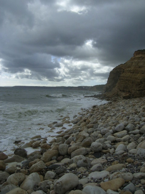 Beach Cabanas Velhas near Salema, municipality of Vila do Bispo, Algarve, Portugal